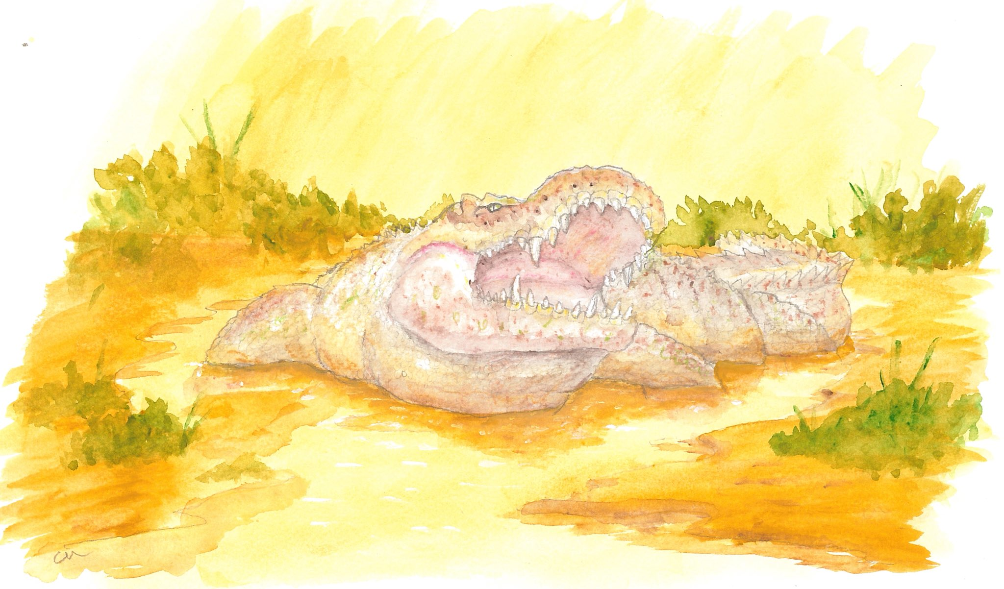 A Mahajangasuchus sunning itself in the evening.